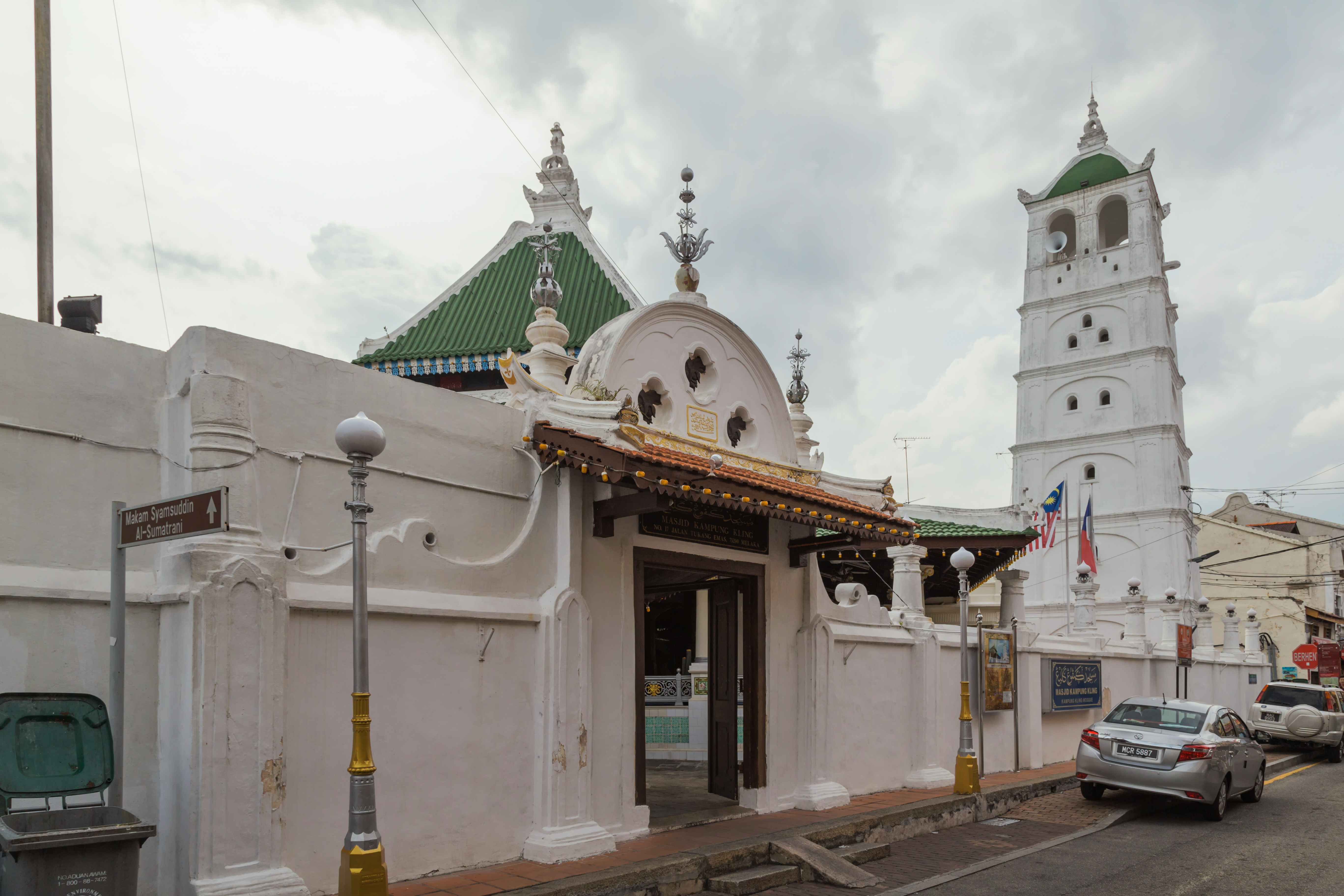 Kampung Kling Mosque. Malacca City, Malacca, Malaysia.